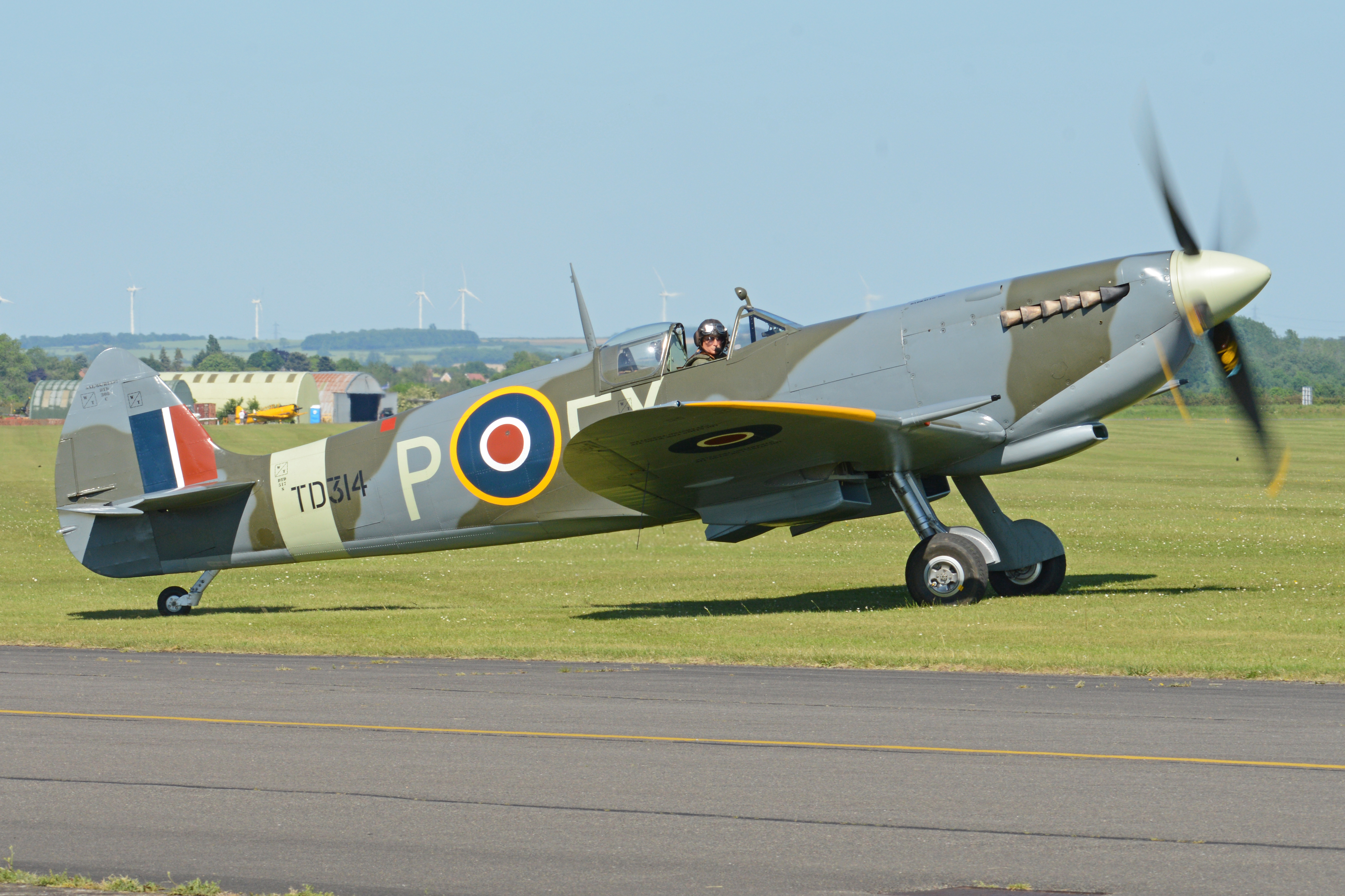 c/n CBAF.10492. Seen taxiing out for an air-test, in the steady hands of John Romain, at the Imperial War Museum, Duxford, Cambridgeshire, UK. 26th May 2017